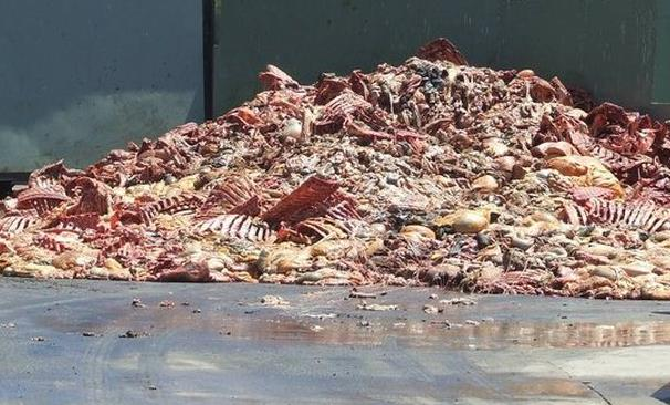 Solid wastes produced by slaughterhouses